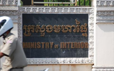 Sign for the Cambodian Ministry of Interior